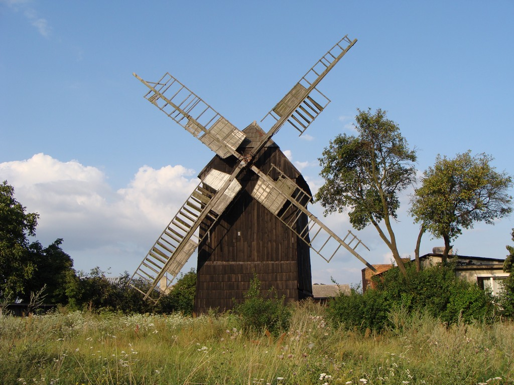 Jerka, windmill.